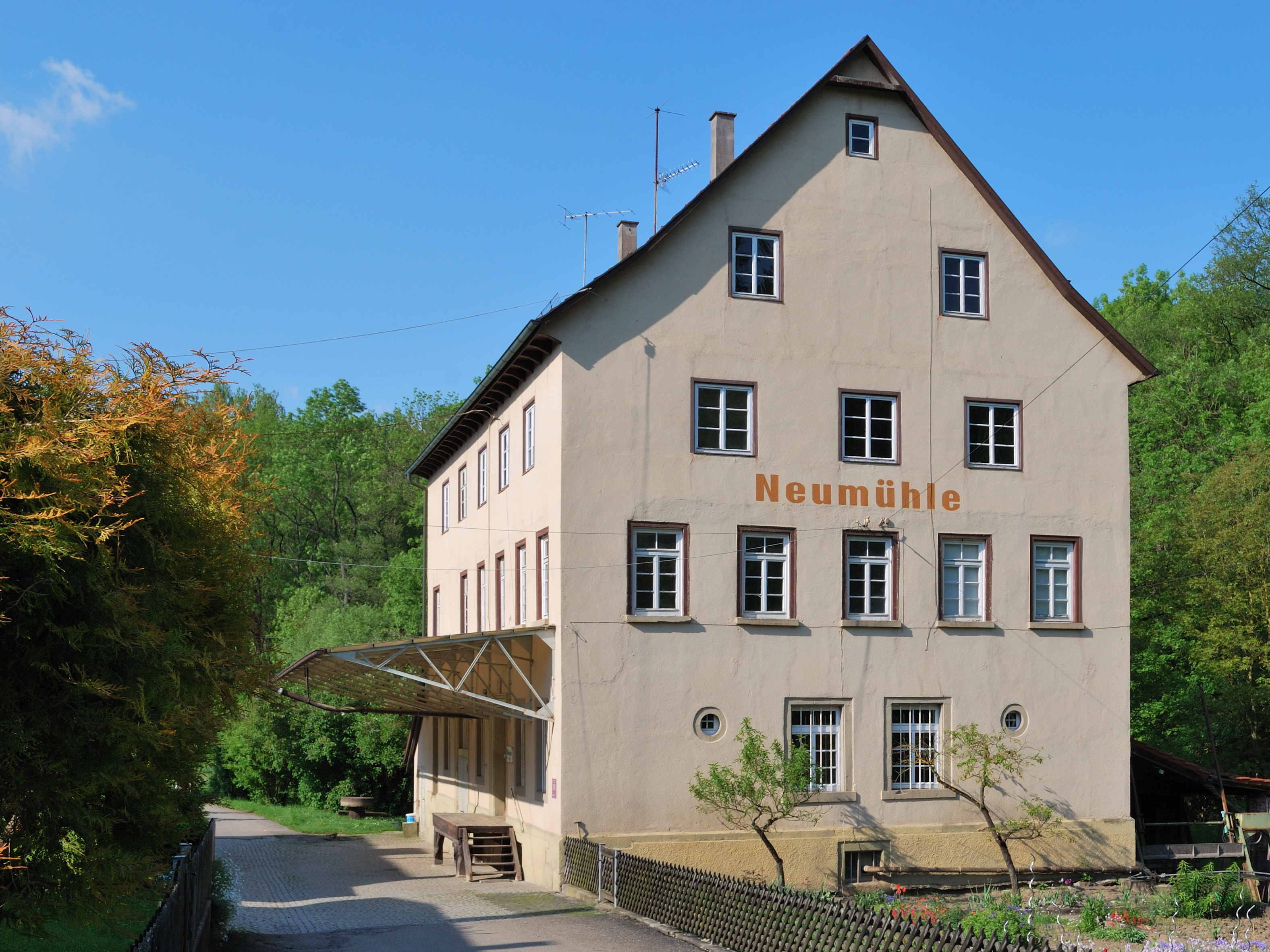 Neumühle, a flour mill on the river Glems in Schwieberdingen in Southern Germany.